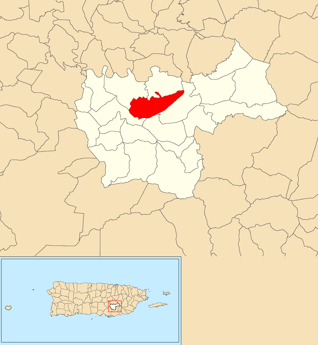 Cayey barrio-pueblo, Cayey, Puerto Rico locator map